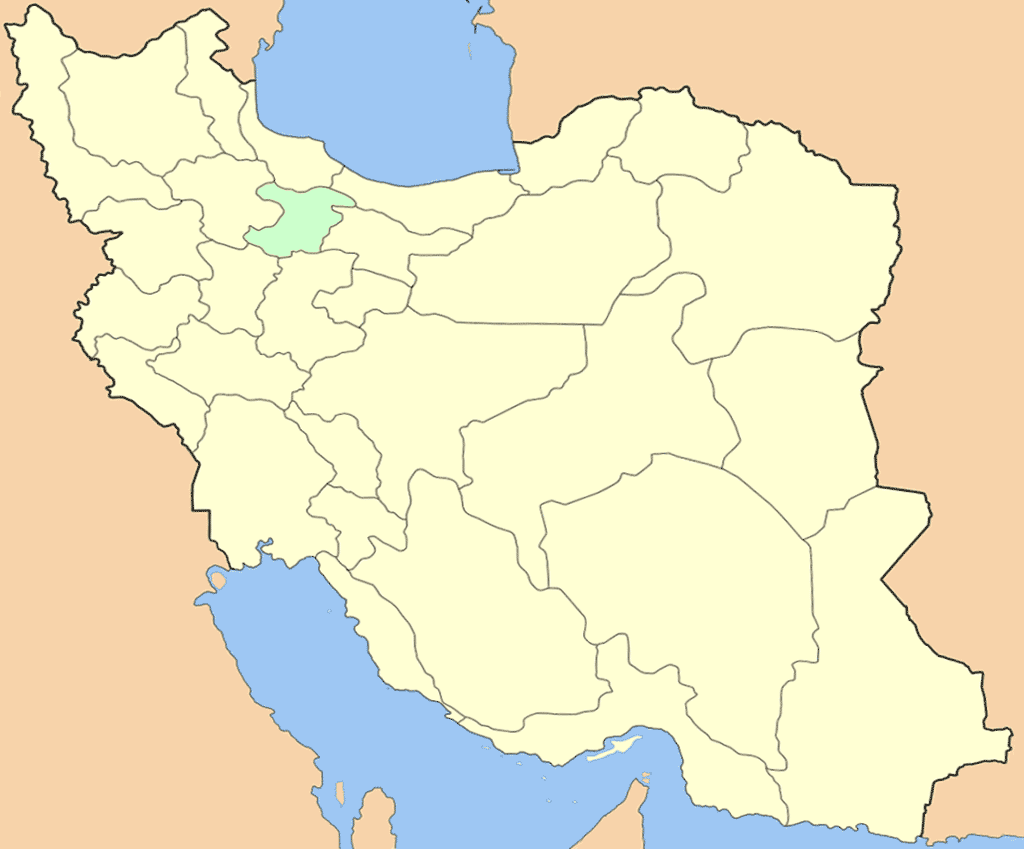 Blank locator map (orthographic projection) of Iran (province of Qazvin)